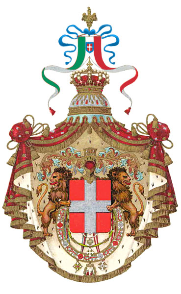 coat of arms of the Kingdom of Italy from 1890 to 1929.